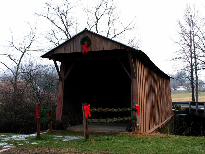 A photo of the Jack's Creek Covered Bridge in Patrick County, Virginia, taken by M.L. Devall in December 2004.